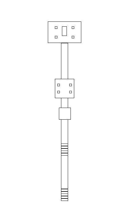 Idealised Straight axis royal tomb